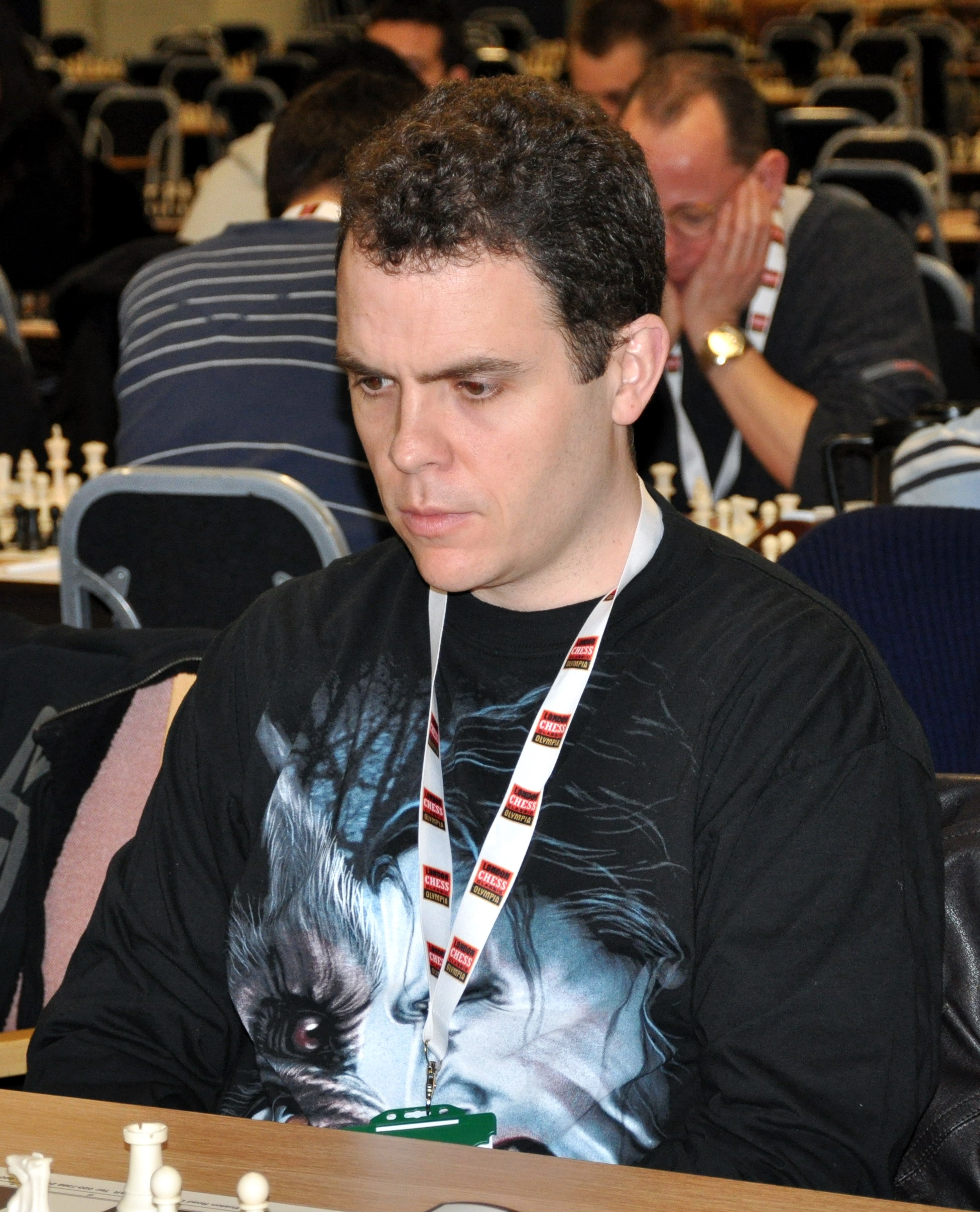 Aaron Summerscale - London Chess Classic 2010